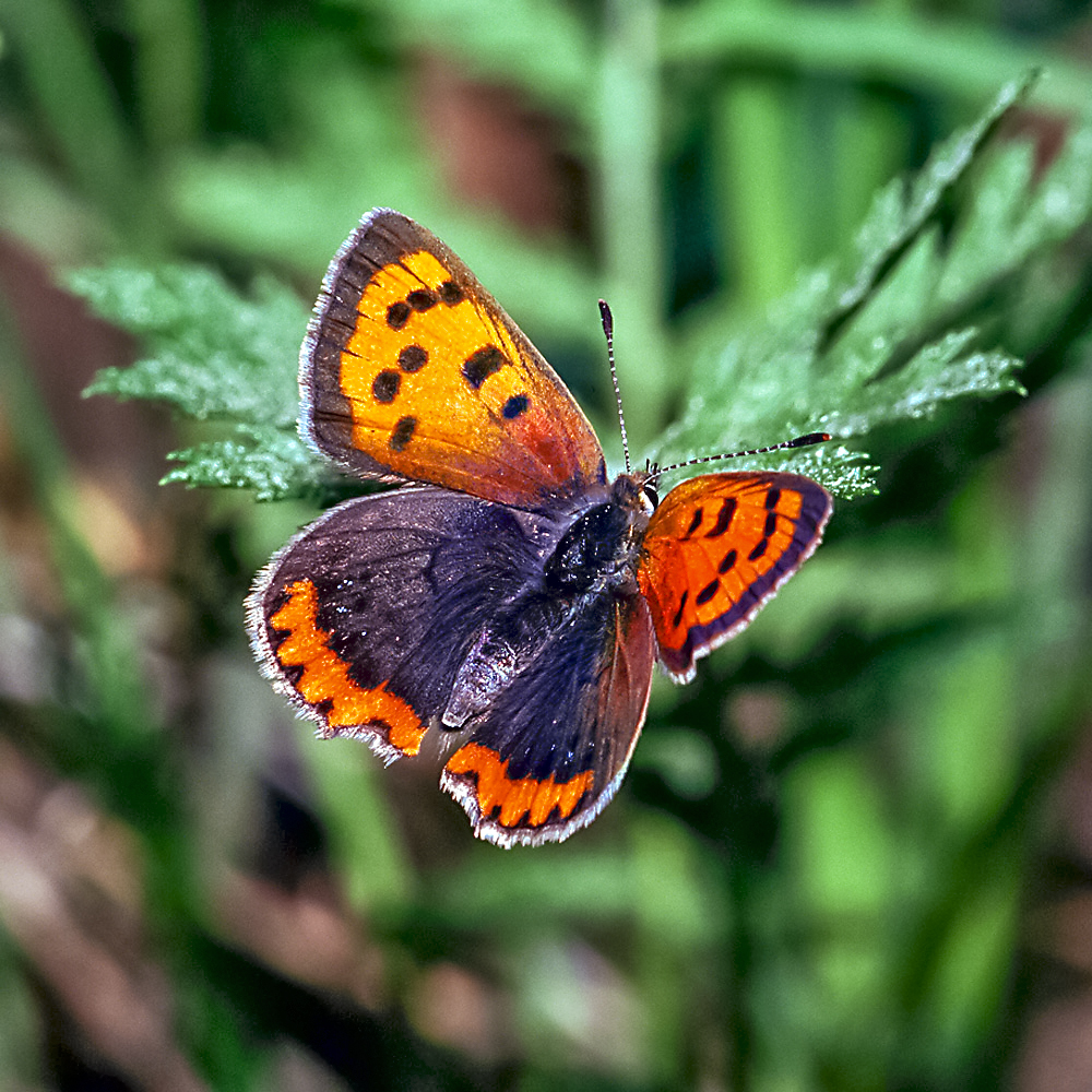 Small Copper (Chrysophanus phlaeas)